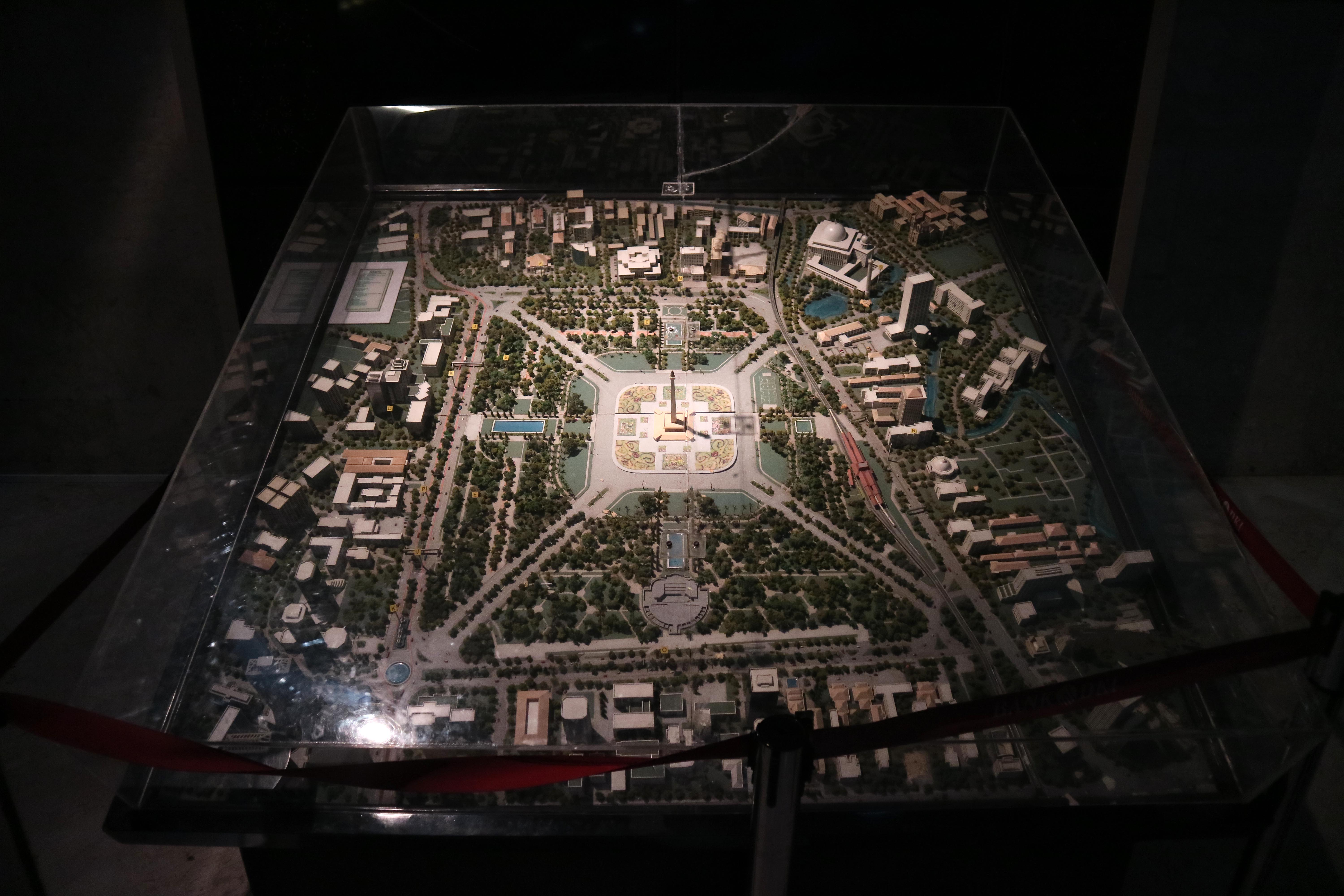 Architectural model of Merdeka Square, Central Jakarta, Indonesia, displayed in National Monument (Monas).